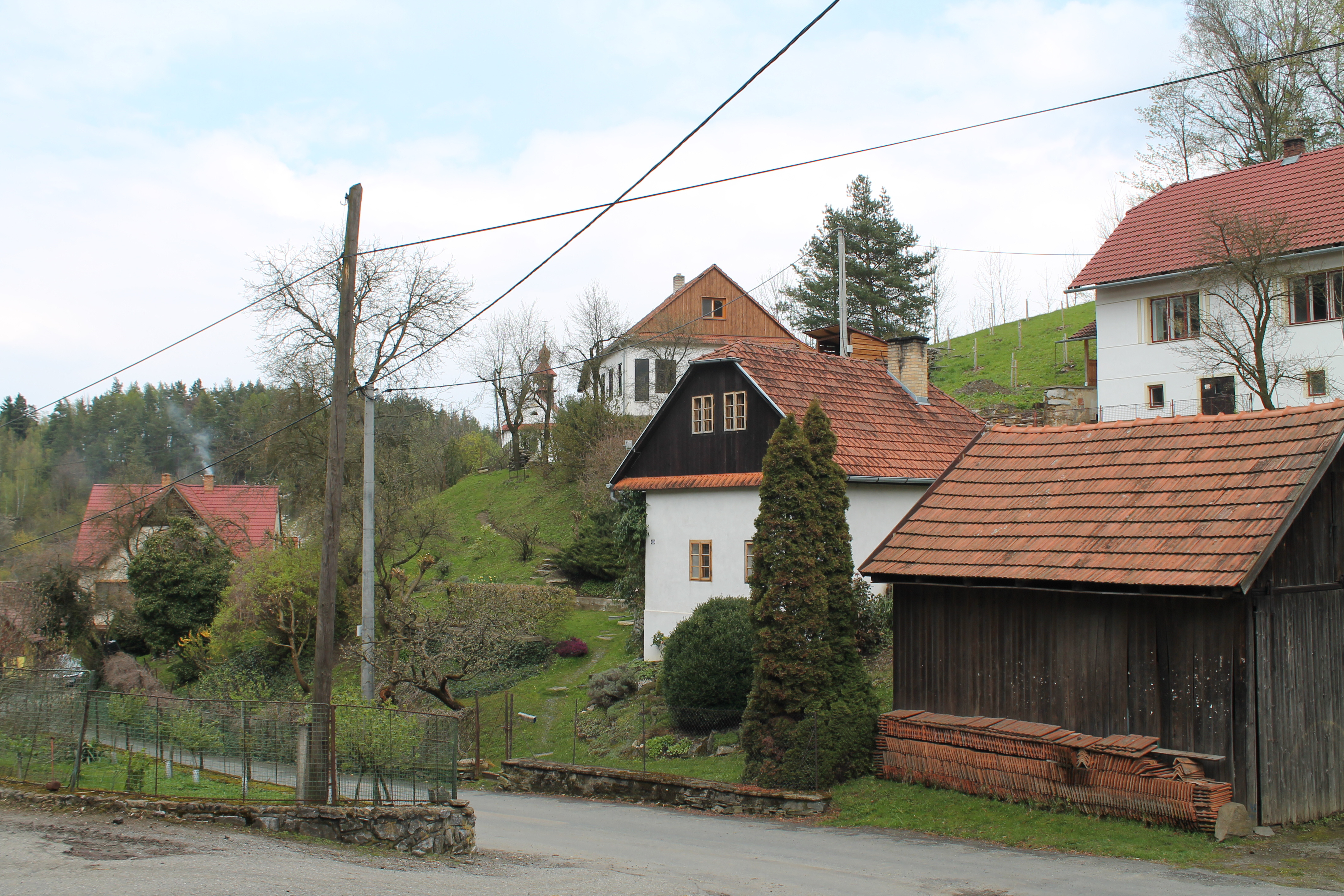 Jobova Lhota, Kněževes, Blansko District, Czech Republic This photograph was taken during a group photography field trip by Brno Wikipedians: 2017-04-29.